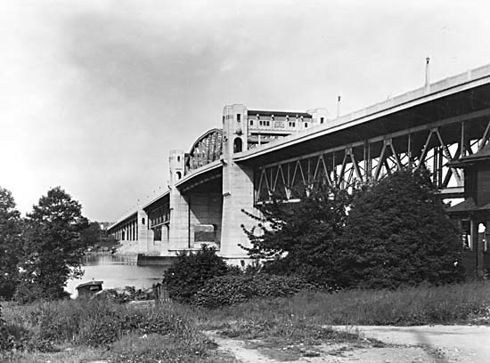 The Burrard Street Bridge in the 1940s.